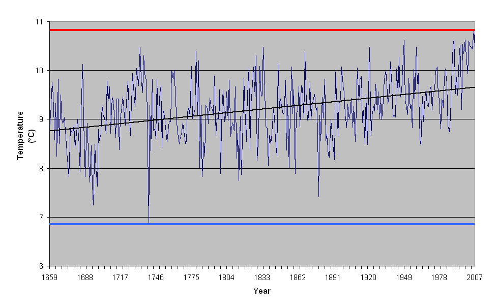 yearly Central England Temperature record (not running mean) Data from HadCet website, graph constructed in Excel